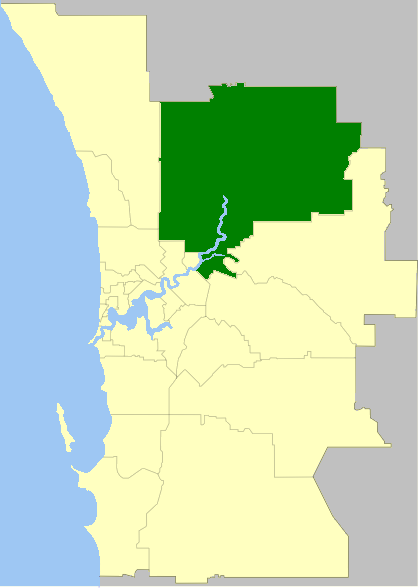 Location of the Local Government Area City of Swan in Perth, Western Australia